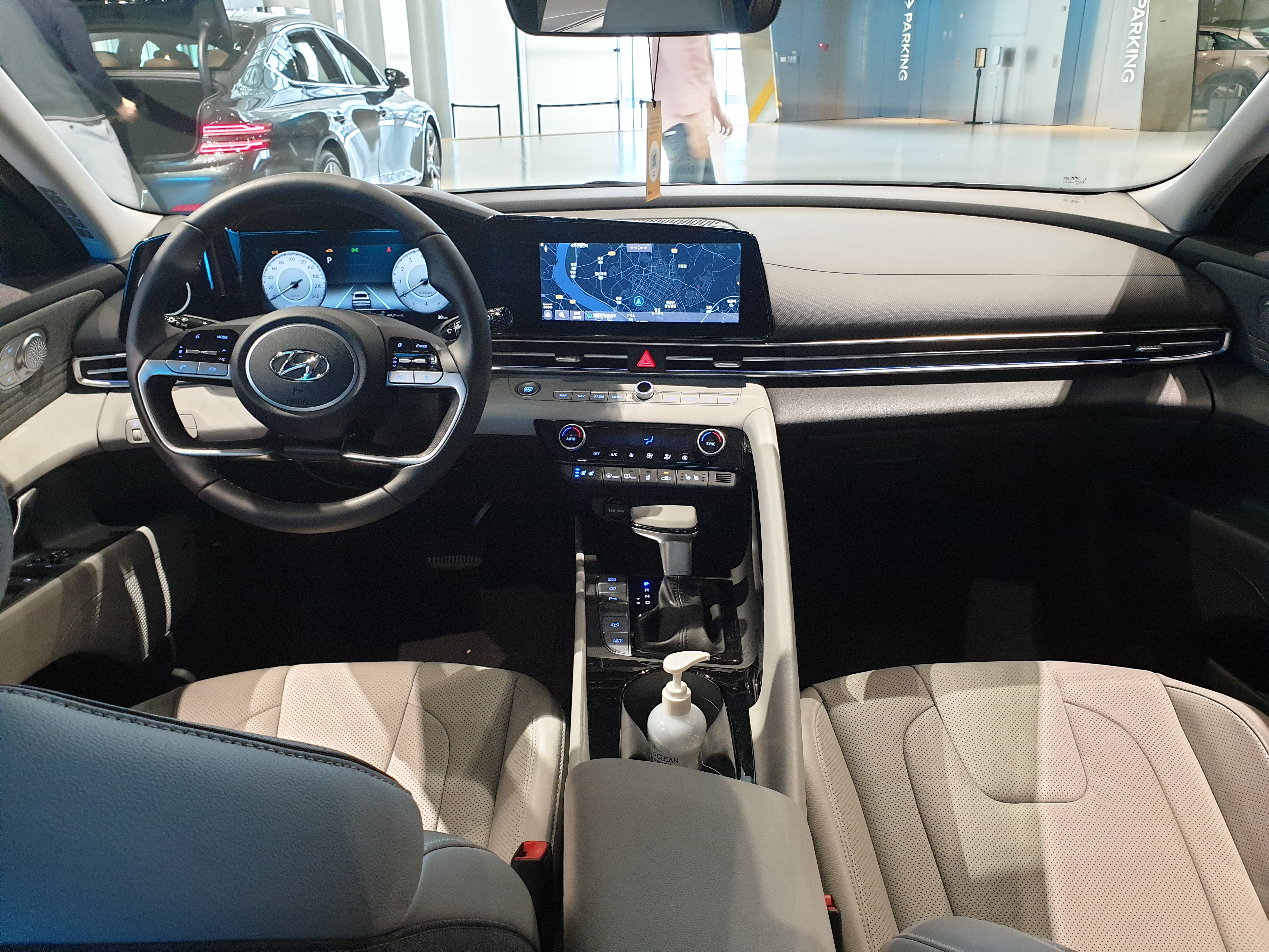 Interior of KDM spec Elantra